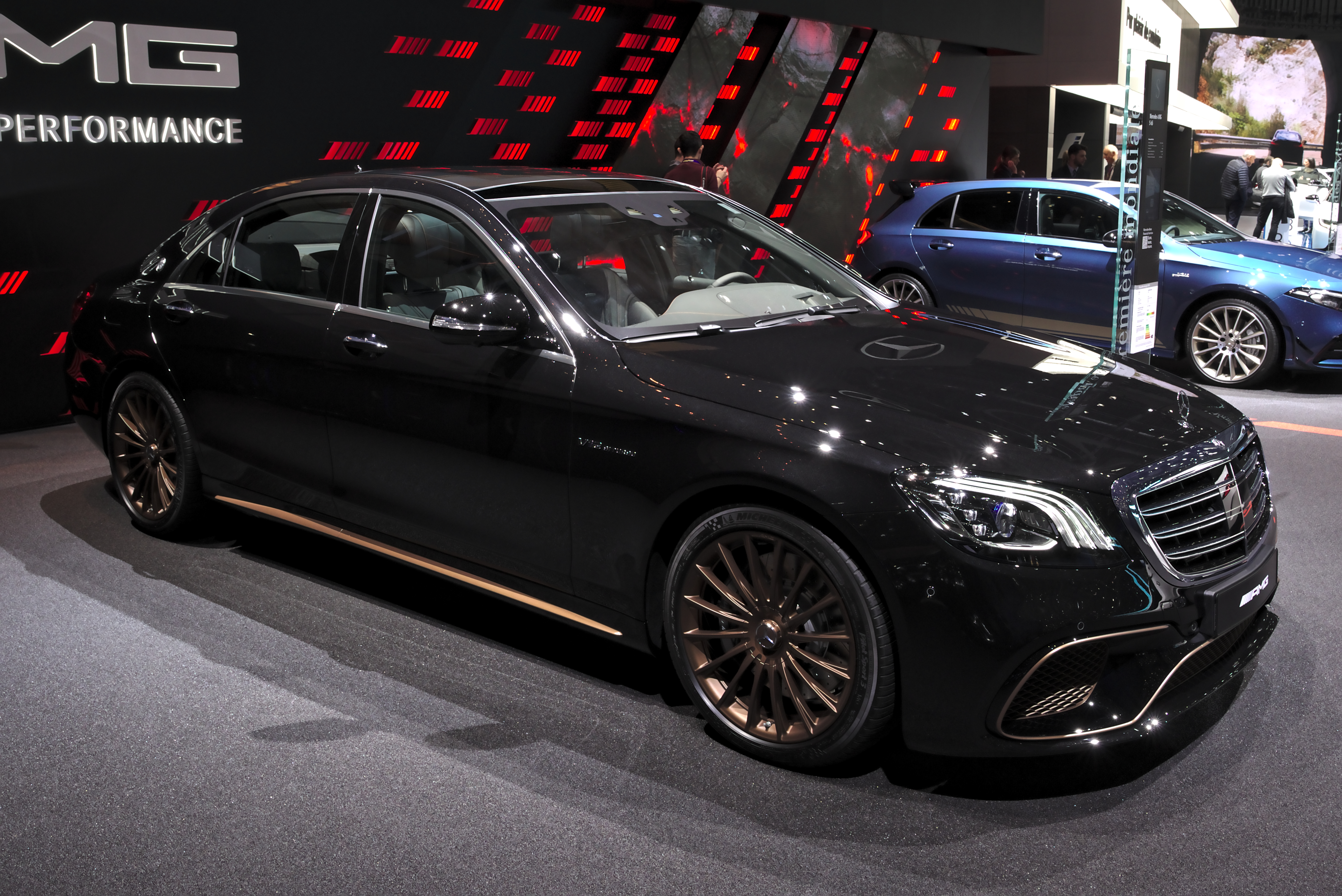 Mercedes-AMG S 65 Final Edition at Geneva Motor Show 2019